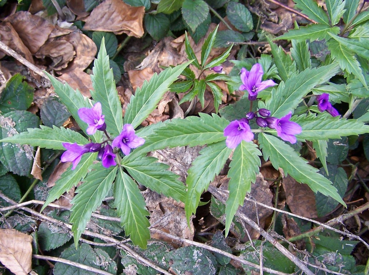 Cardamine glandulosa (family: Brassicaceae), species subendemic to Carpatian Mts.